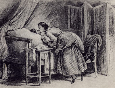 Illustration to The Captain's Daughter